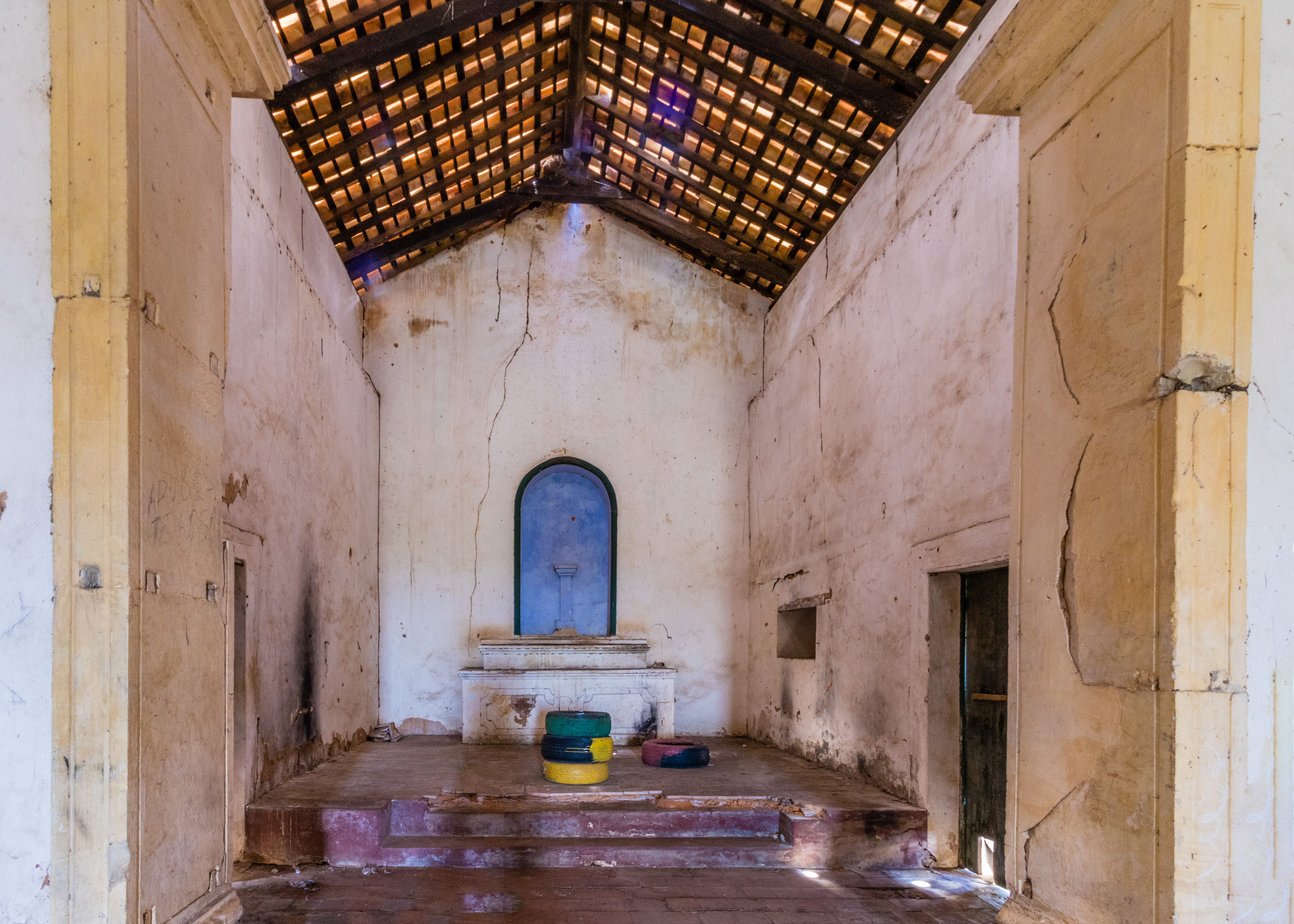 Altar of Chapel of Our Lady of the Conception of Engenho Poxim, São Cristovão, Sergipe, Brazil.